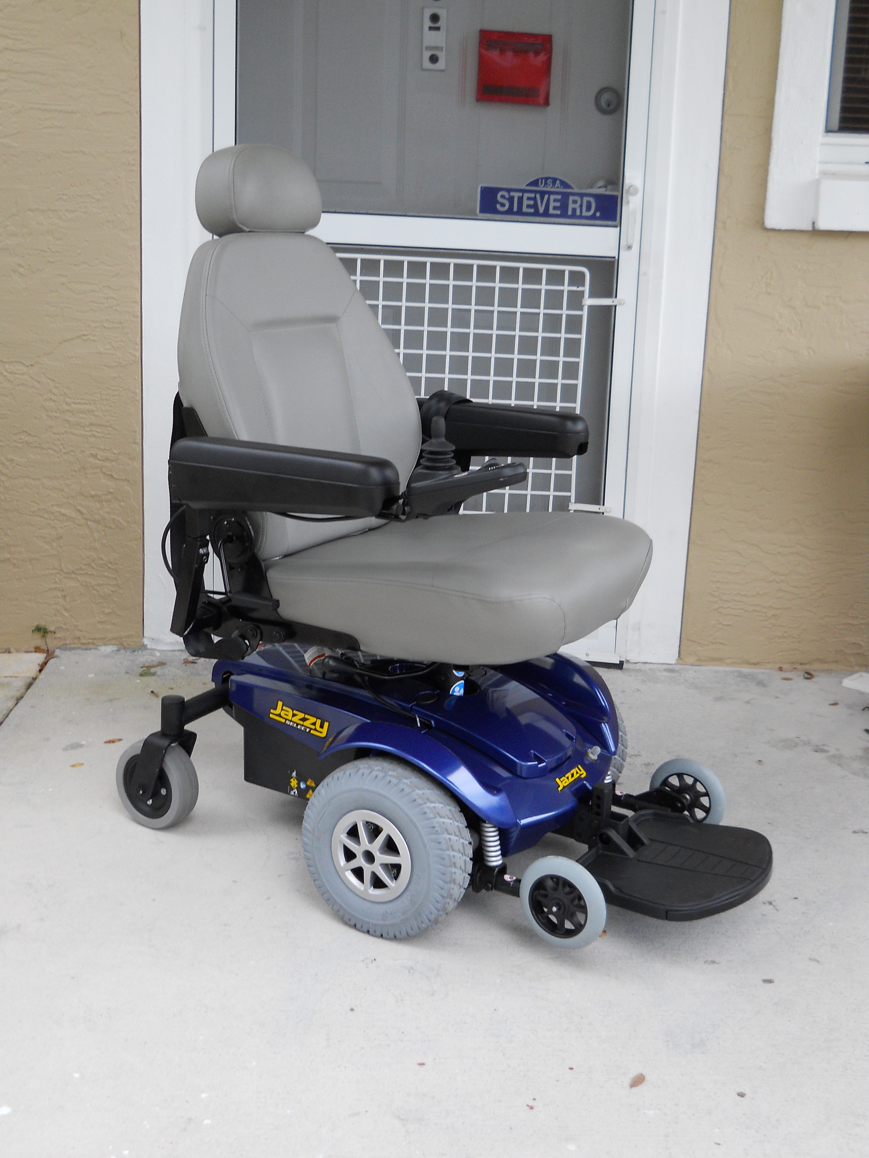 Pride Jazzy Select power chair